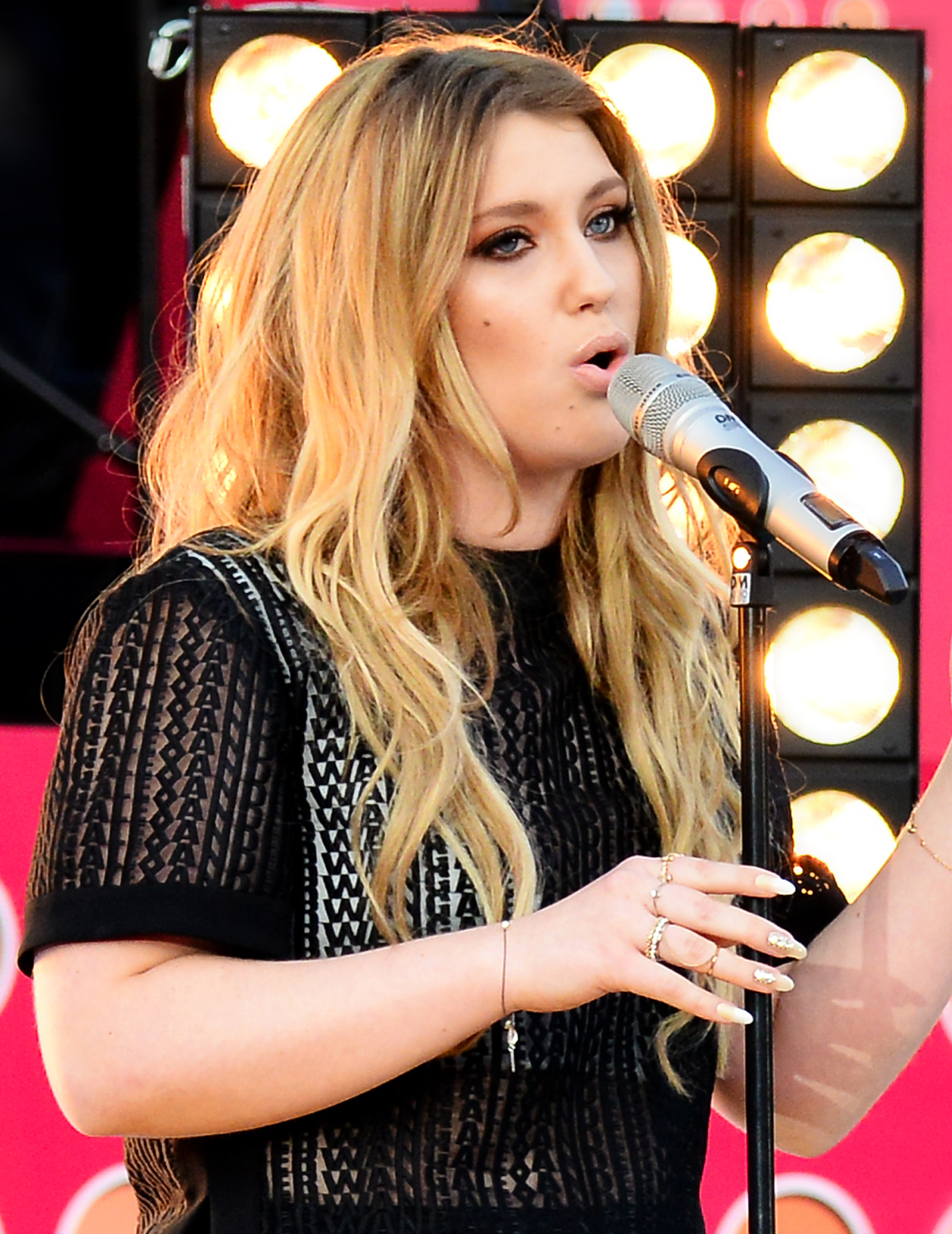 Ella Henderson visit Sommarkrysset at Gröna Lund in Stockholm